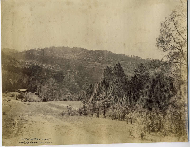 Ranikhet, Uttarakhand in the 1880s